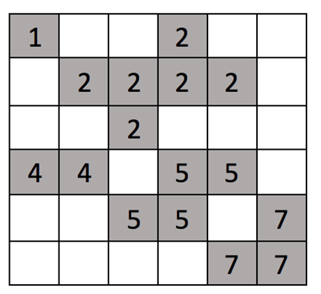 This is sample output Grid of H-K Algorithm